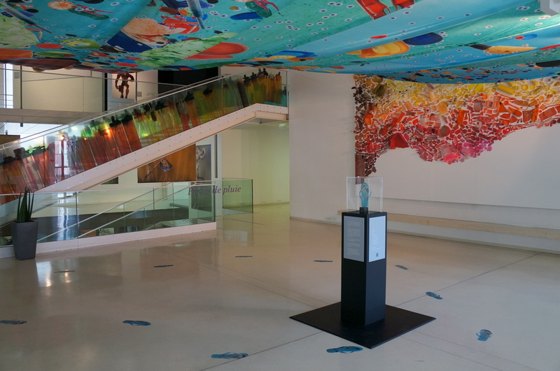 Exhibition Ta mere en tong Pavillon de l'eau 2012